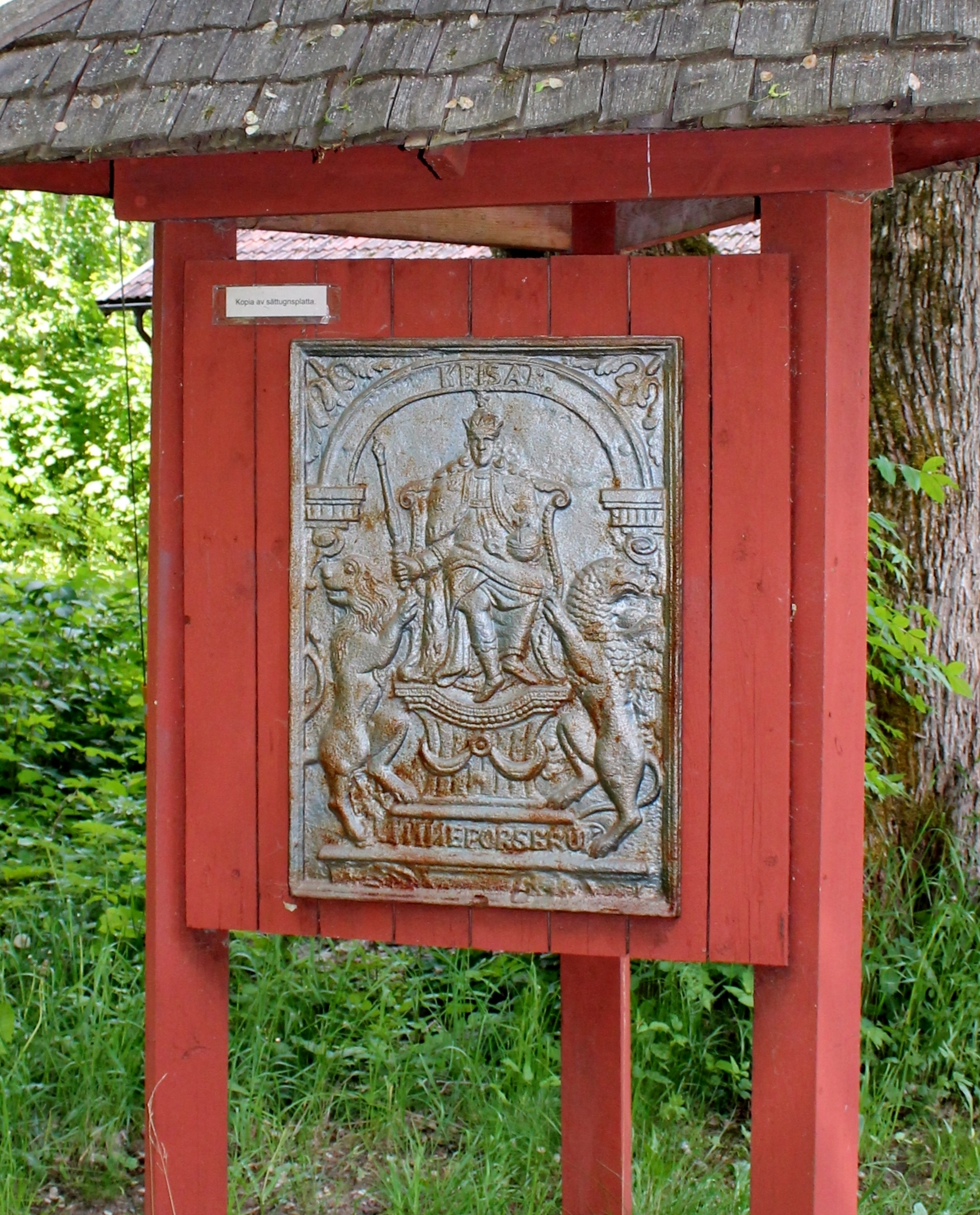 Linnefors.Memorial to the ironworks.